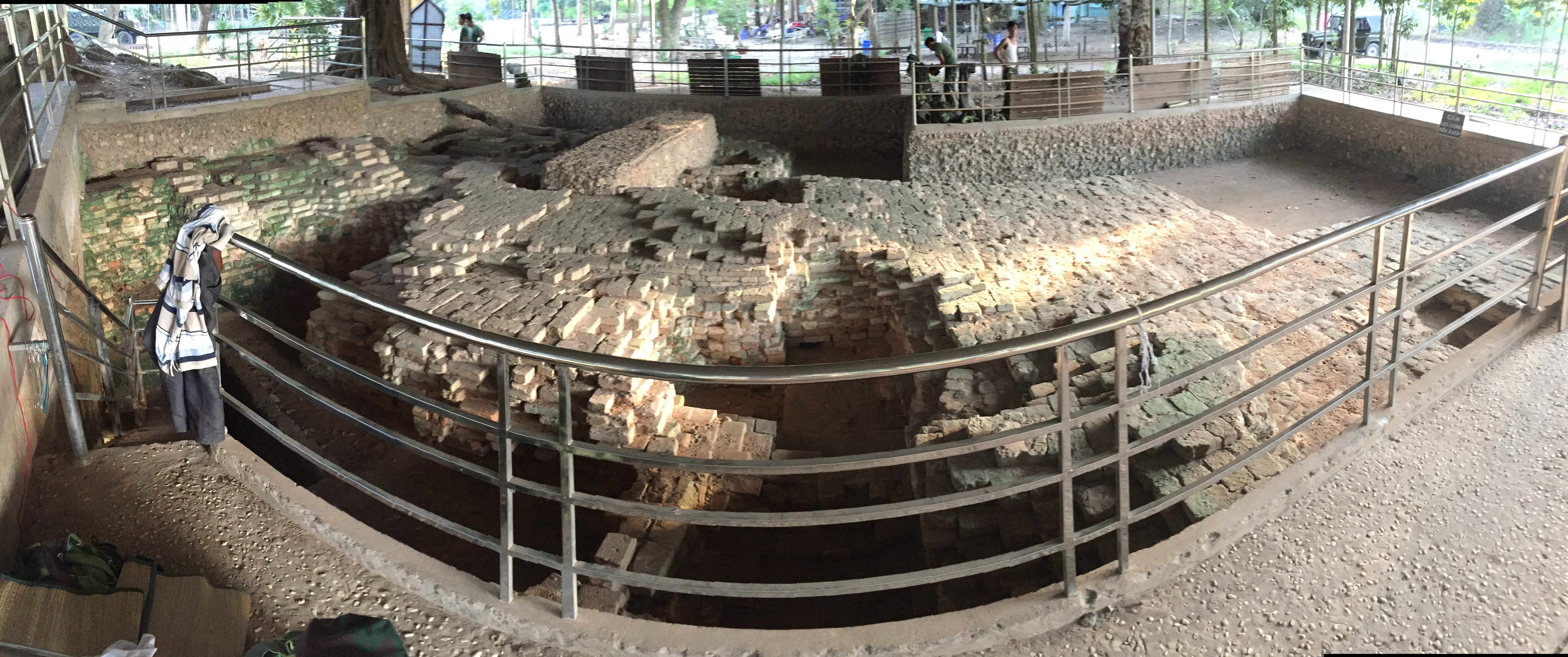 Panoramic photo of Go Thap Muoi, Go Thap archaeological site in Dong Thap, Vietnam